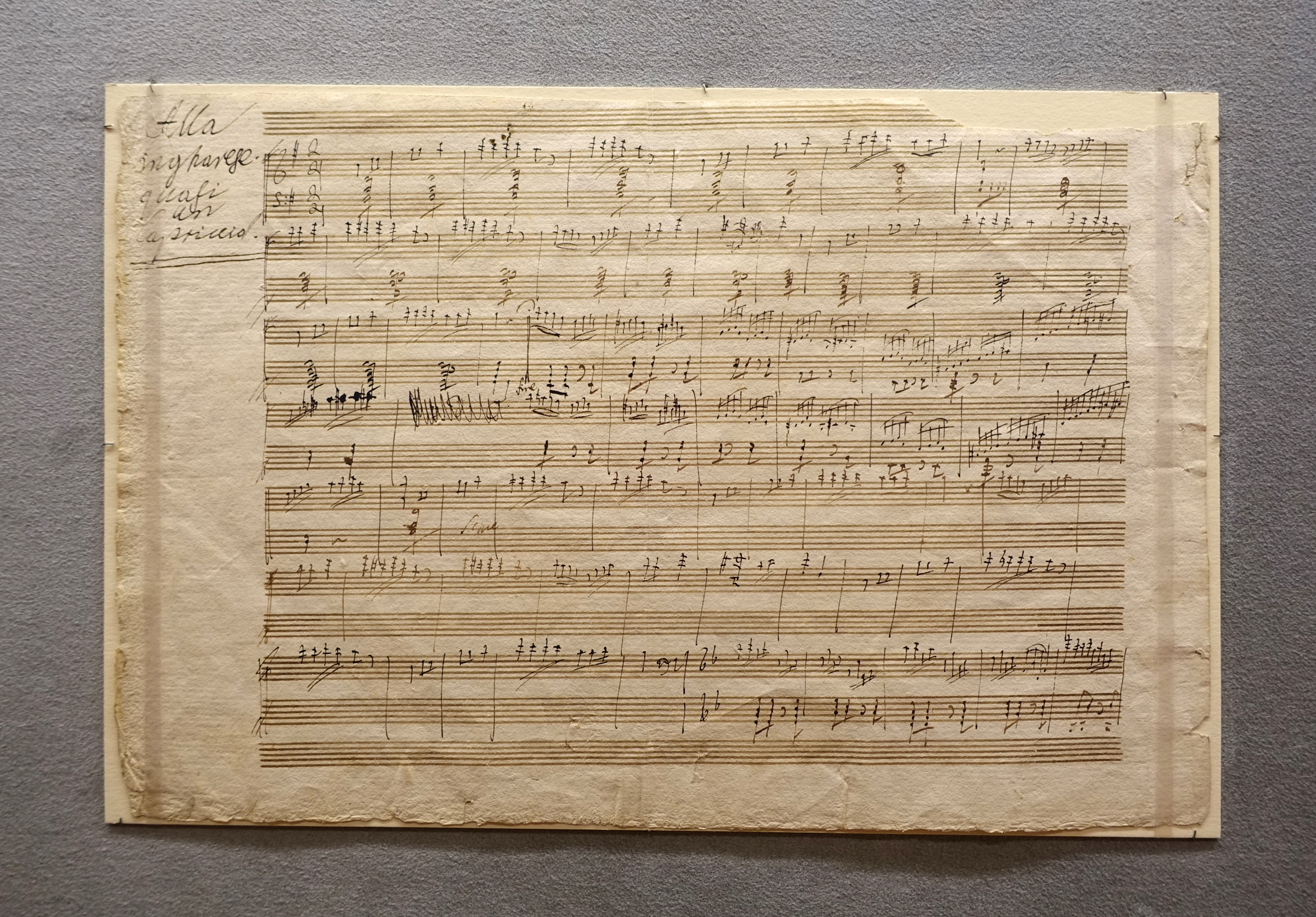 Exhibit in the Morgan Library & Museum - New York City, New York, USA.